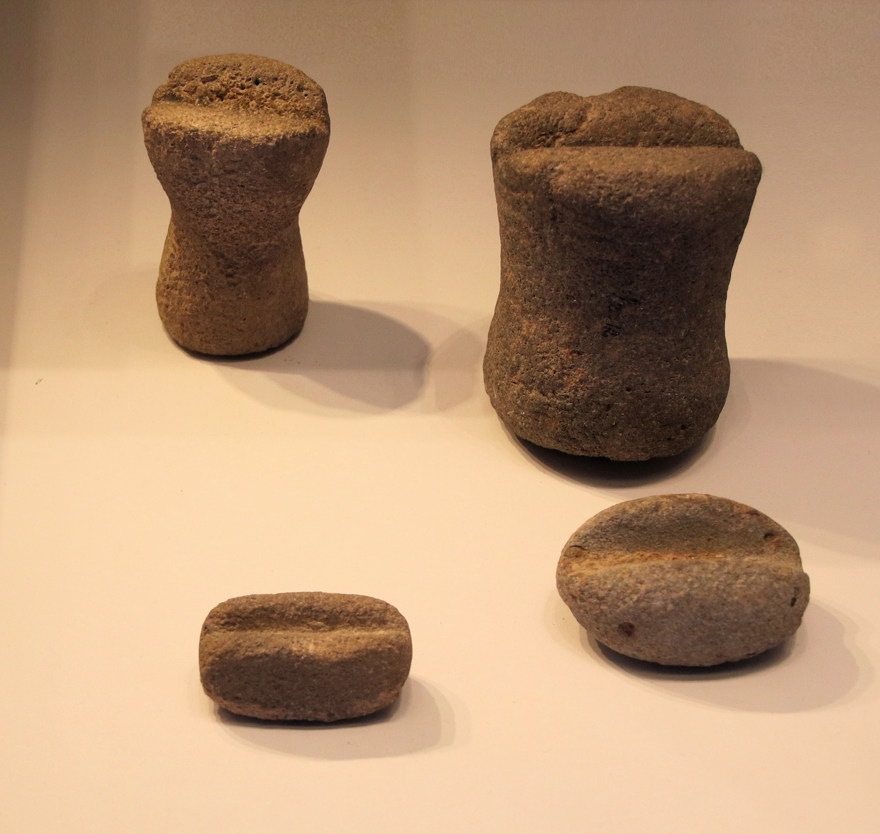 Basalt Sharpening Stones, Natufian Culture Israel Museum, Jerusalem, Israel. Complete indexed photo collection at .